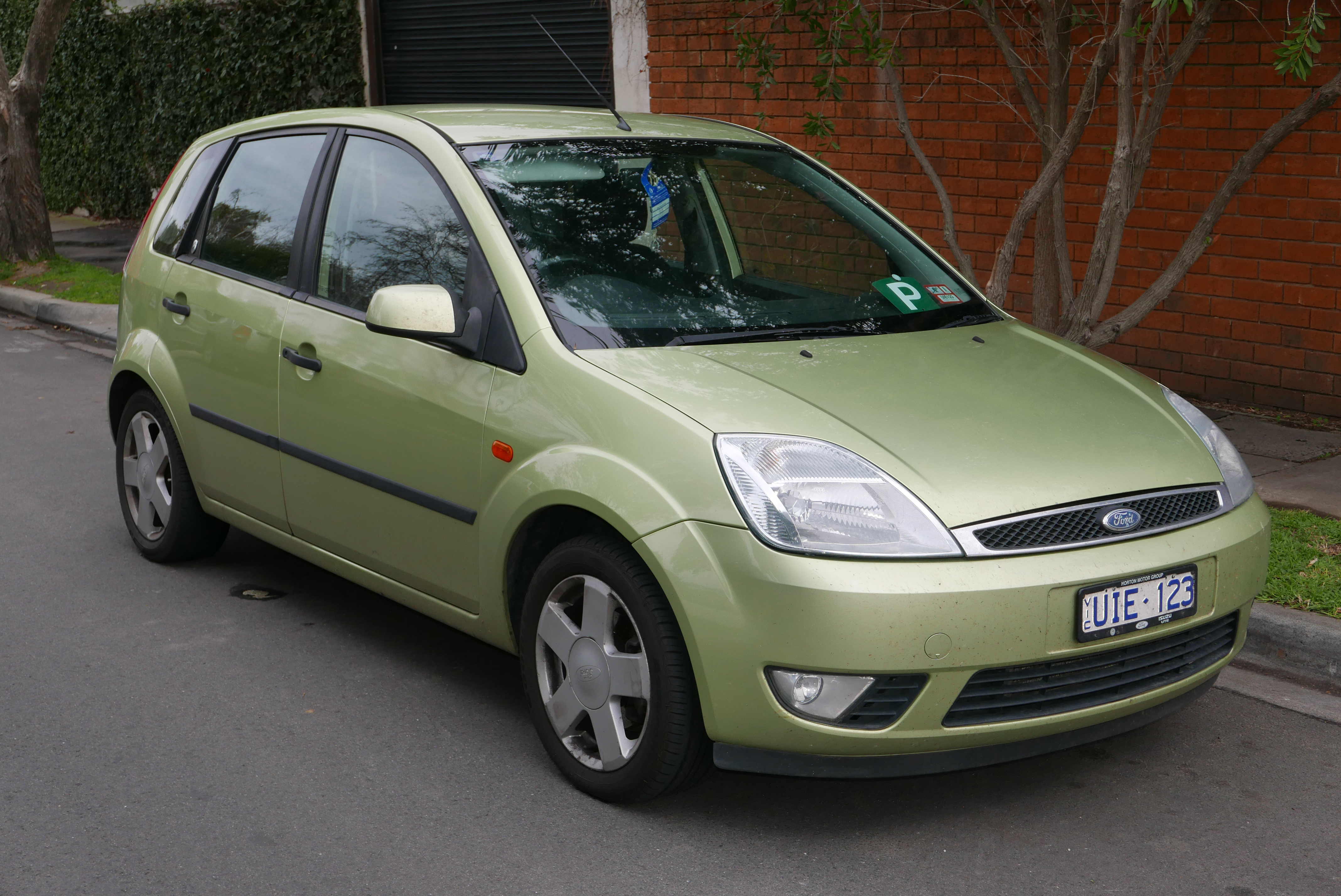 2005 Ford Fiesta (WP) Ghia 5-door hatchback. Photographed in Hawthorn, Victoria, Australia. Vehicle registration enquiry results Jurisdiction Victoria Registration UIE123 Chassis code WF0HXXGAJH5C81071 Engine code FYJA5081071 Compliance date 2005-11 Year of manufacture 2005